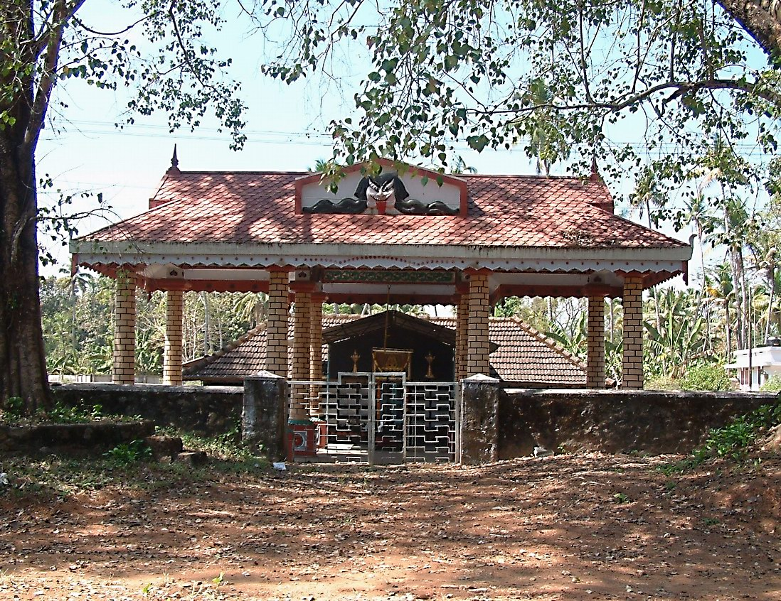 Kannampuzha temple